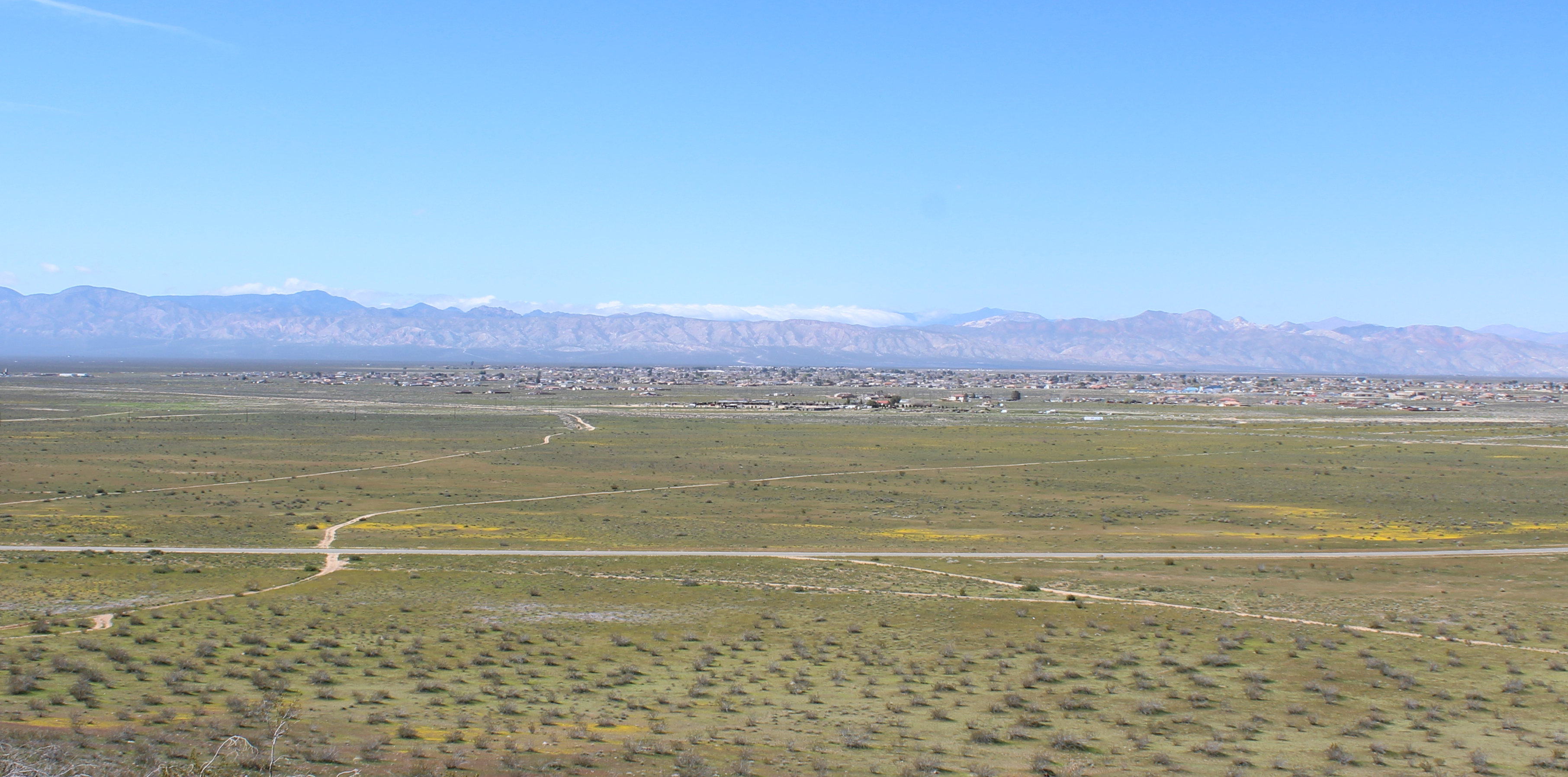 View of California City from the Twin Buttes with the Sierra Nevada Mountains in the background